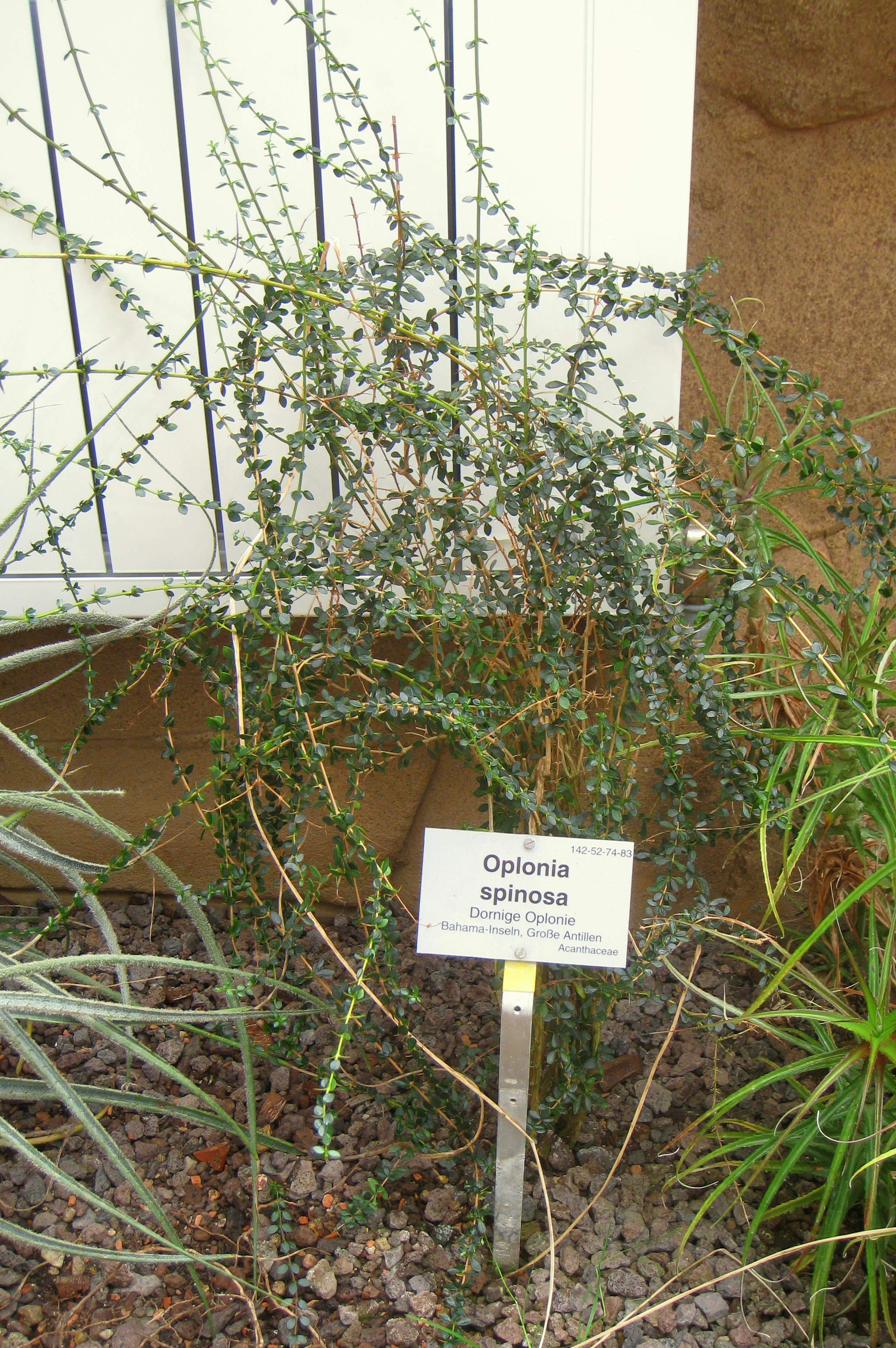 Oplonia spinosa specimen in the Botanischer Garten, Berlin-Dahlem (Berlin Botanical Garden), Berlin, Germany.